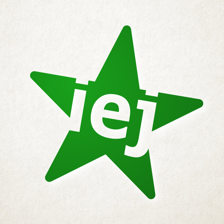 IEJ's logo